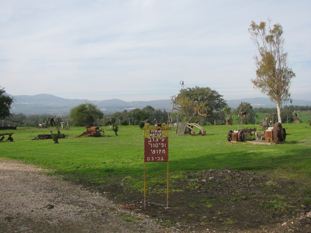 General view of the sculpture garden in the Kibuts kfar-Szold